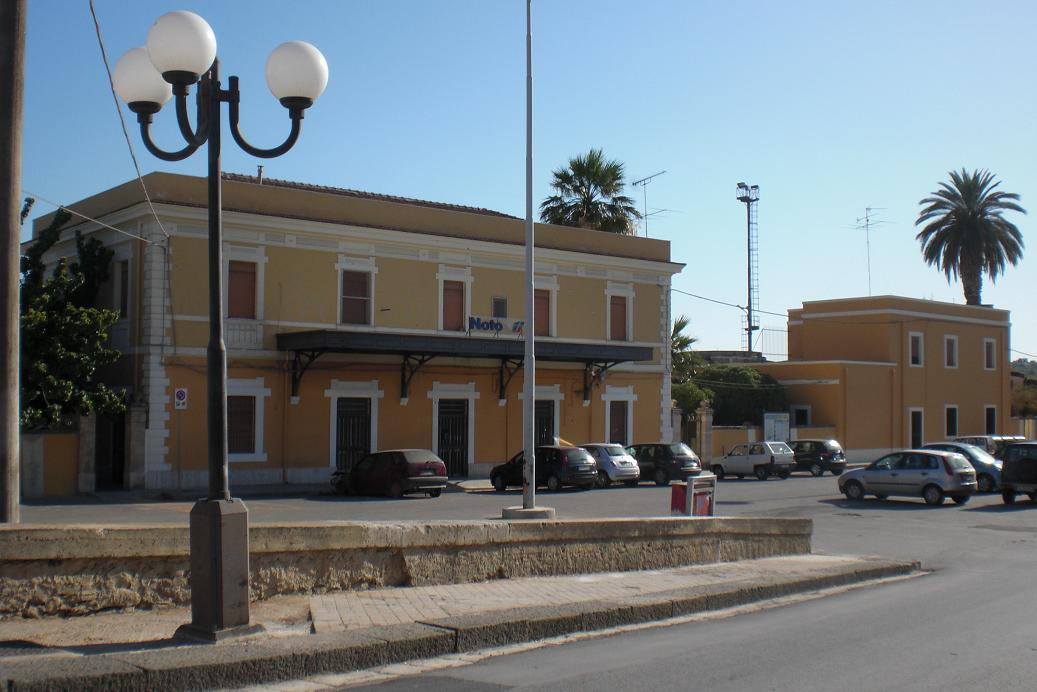 Train station of Noto, Sicily.